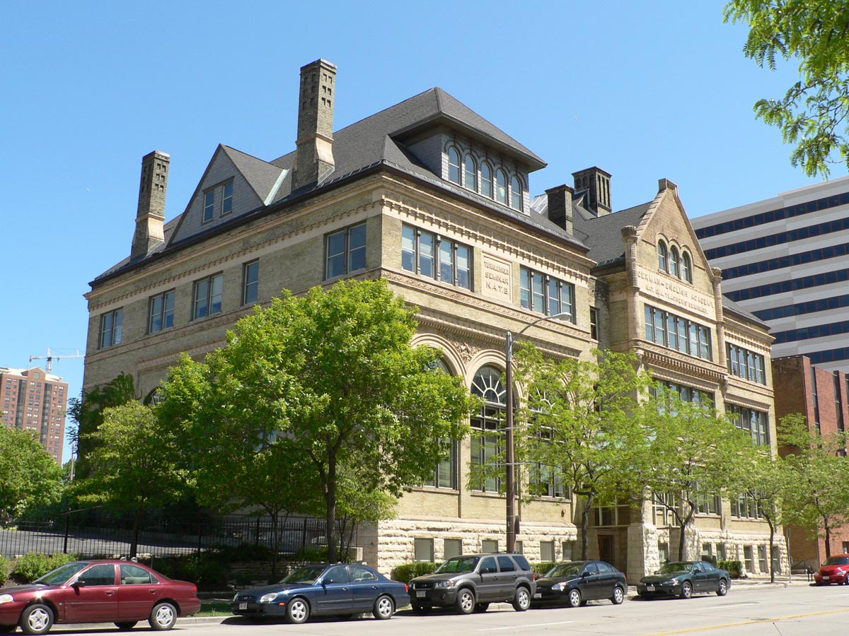 Copyright © 2006 Sulfur The German-English Academy (later Milwaukee University School) was an early educational institution in downtown Milwaukee, Wisconsin.